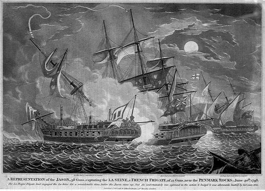 'A Representation of the Jason 38 guns, capturing the La Seine a French Frigate of 42 Guns near the Penmark Rocks, June 30th 1798'. Deptiction of the Action of 30 June 1798